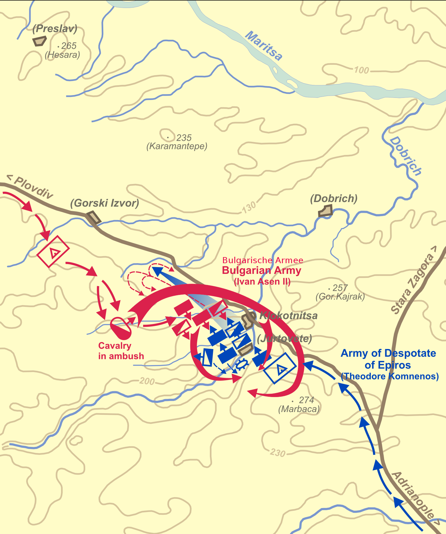 Battle of Klokotnitsa (9 March 1230)